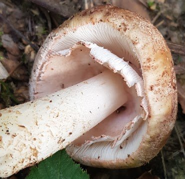 Detailed picture of Amanita rubescens shows creation of the striated ring, where striates are made by imprint from gills